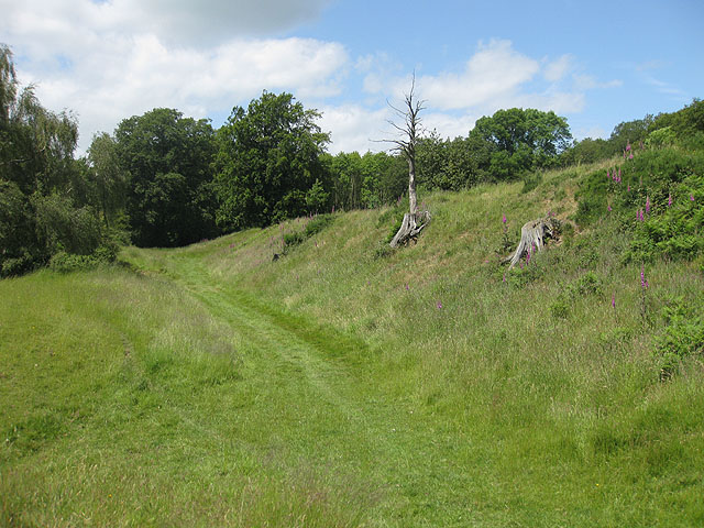 Earthworks at Capler Camp This is the south side of the Iron Age Hill Fort.